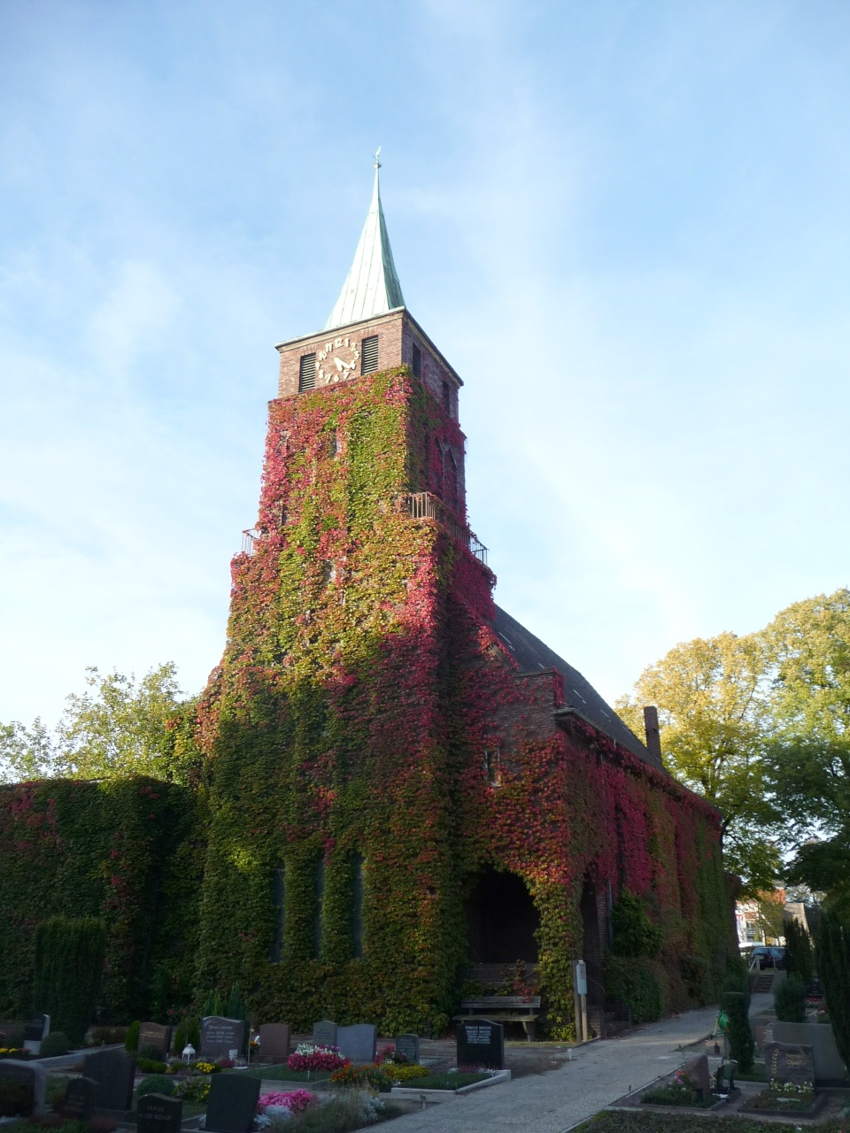 evang. church in Bremen-Groepelingen